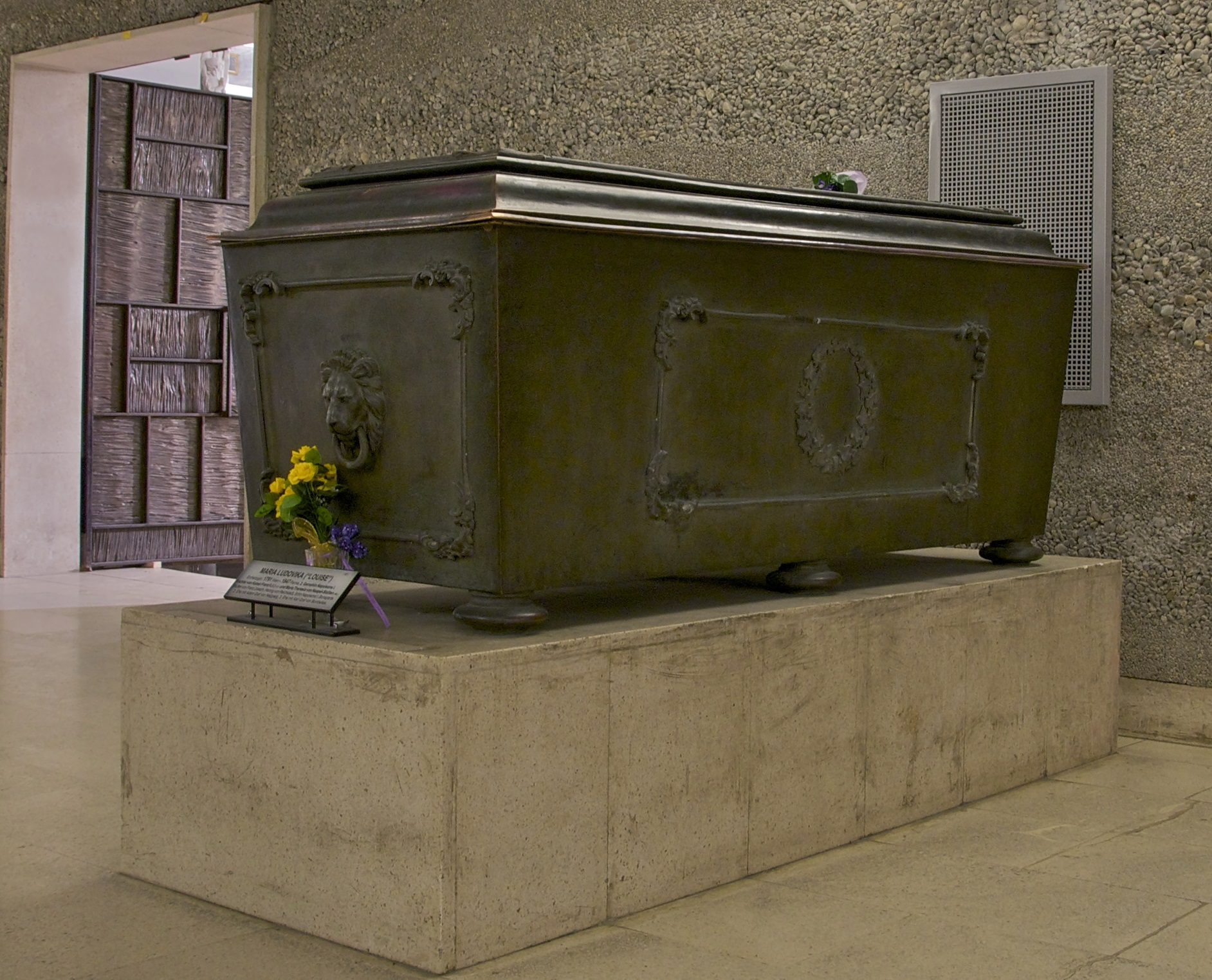 Sarcophagus of Marie-Louise (Archduchess Maria Ludovika), 2nd wife of Napoleon I, Empress of the French, Kapuzinergruft, Vienna, Austria.